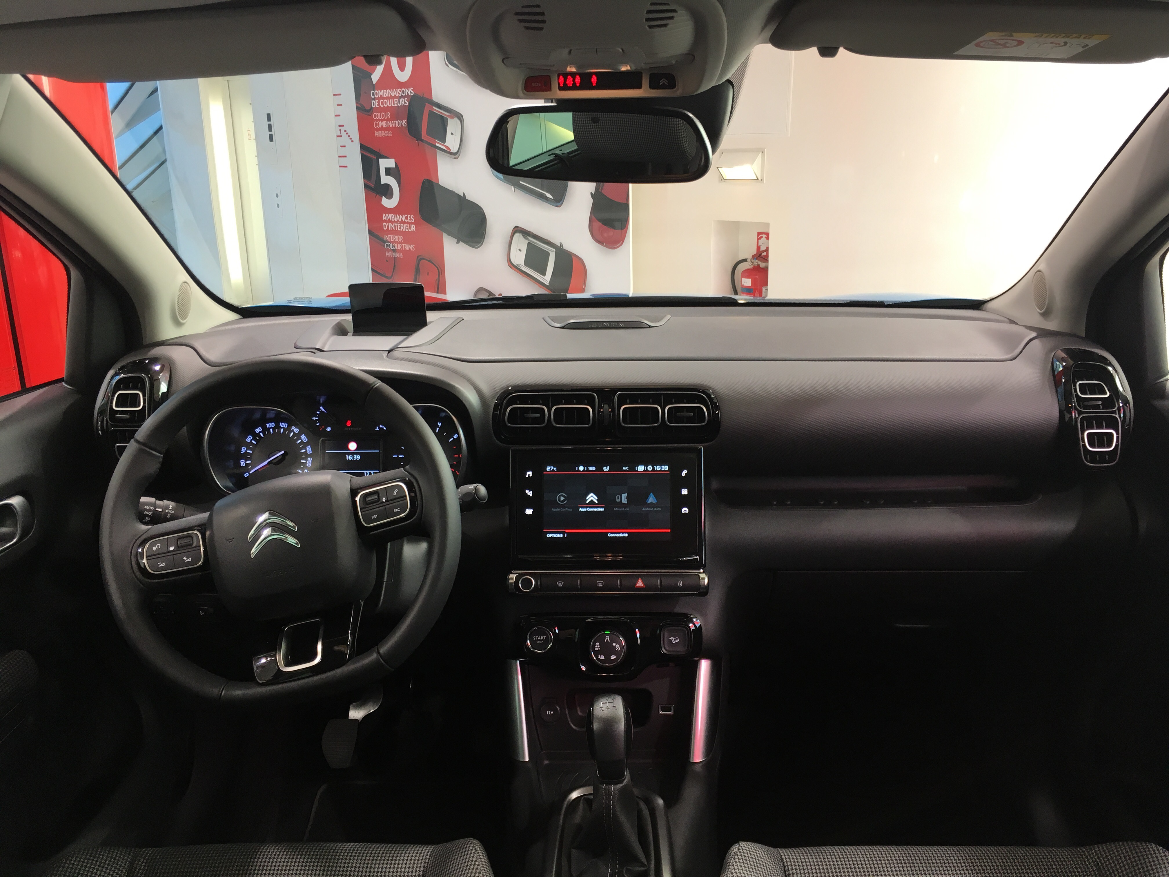 Interior of C3 Aircross